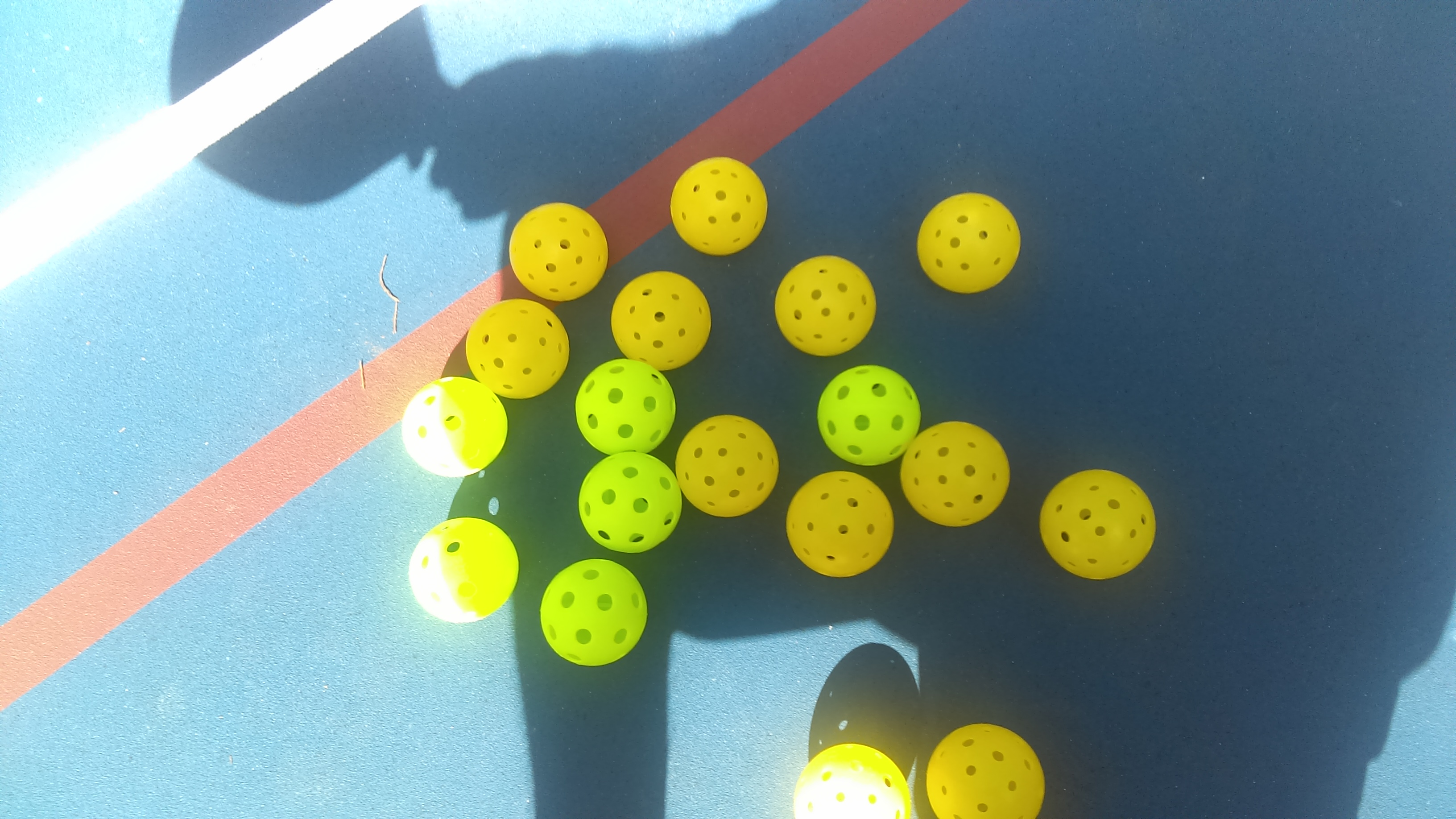 Green and yellow Pickleballs sitting on blue court, light and shade.